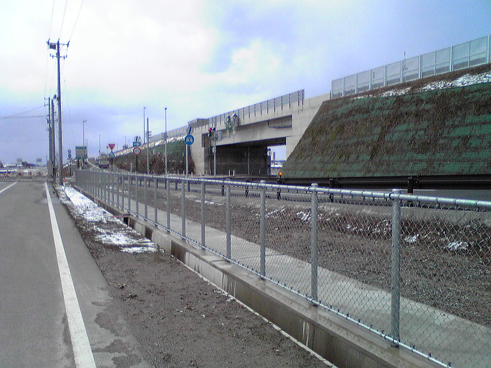 Kamihayashi-Iwafuneko Interchange, Nihonkai-Tohoku Expwy, Japan. It took a picture from the north side of the service road on the east side of the interchange.